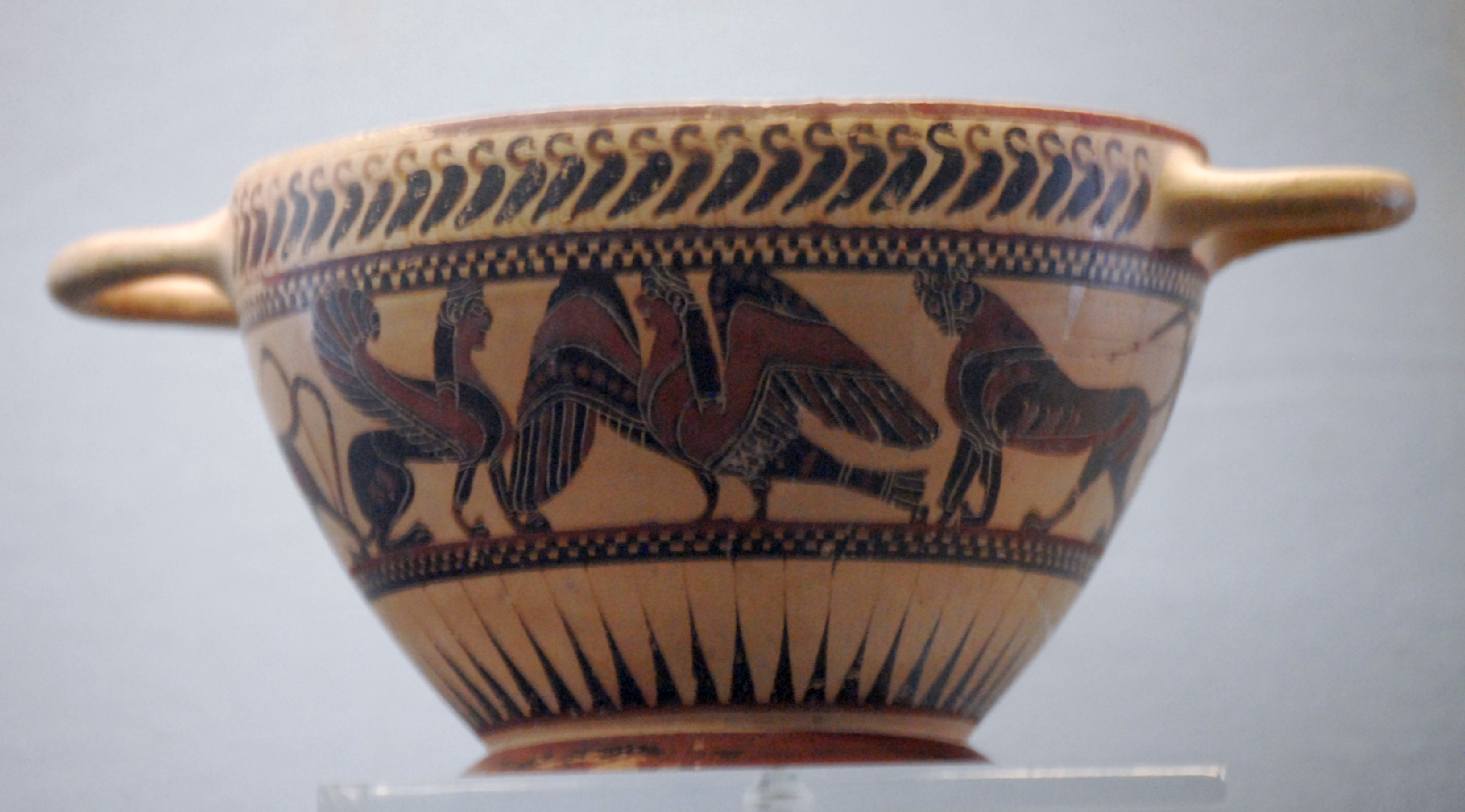 Name vase by the Gießen Painter; middle-korinthian black-figure Kotyle depicting an animal frize with Sirene, Sphinxes, Panther, Swan and Goat; ca 600/590-570 BC; Antikensammlung Gießen K III-11, purchased 1908 from the Collection Vogell.